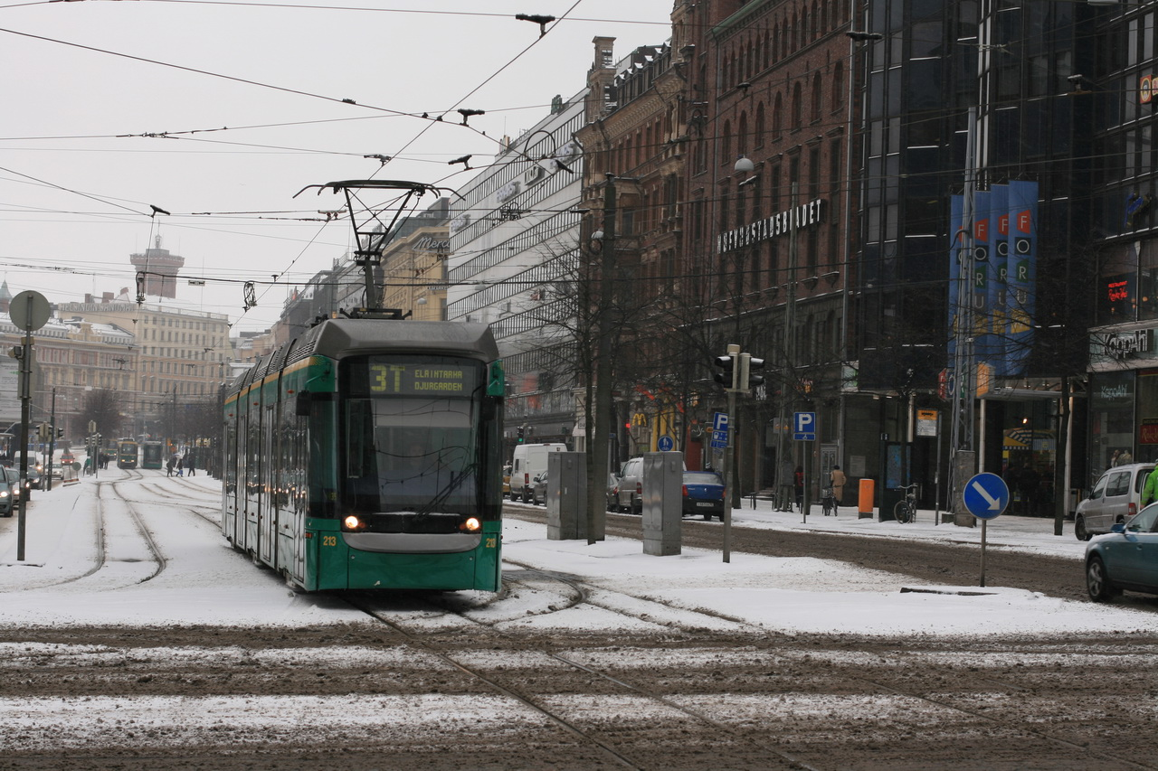 Tram in Helsinki